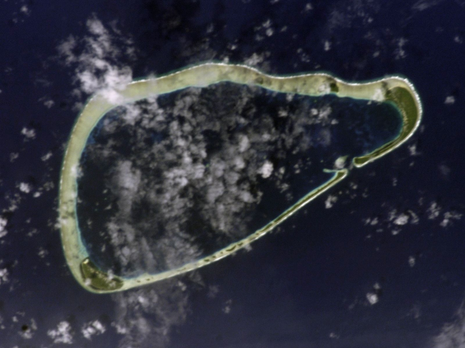 NASA astronaut image of Lukunor Atoll, Chuuk State, Federated States of Micronesia